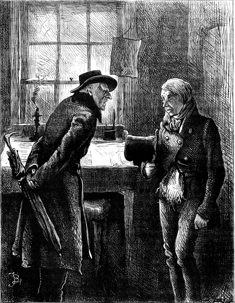 Dickens's Christmas Books, A Christmas Carol, "Stave One: Marley's Ghost." Details Plate and the first page of text Bob's snuffed candle Bob's comforter Bob's comforter from the frontispiece Barnard's second Christmas Carol Illustration: "It's not convenient," said Scrooge, "and it's not fair. If I was to stop half-a-crown for it, you'd think yourself ill-used, I'll be bound?" (p. 1)